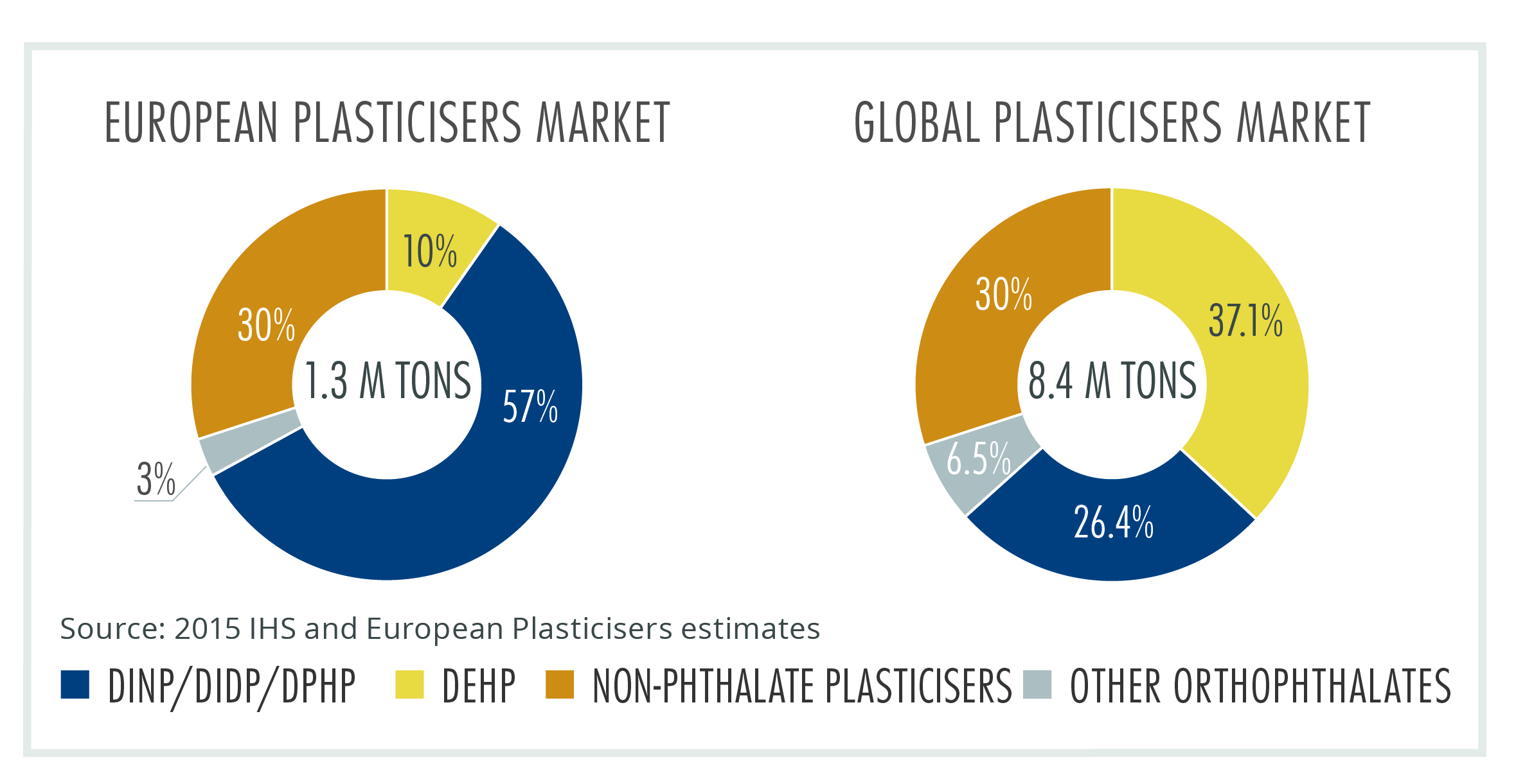 Review of different plasticiser types used in Europe compared with the Global picture